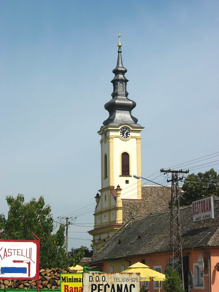 The Romanian Orthodox church in Banatsko Novo Selo.